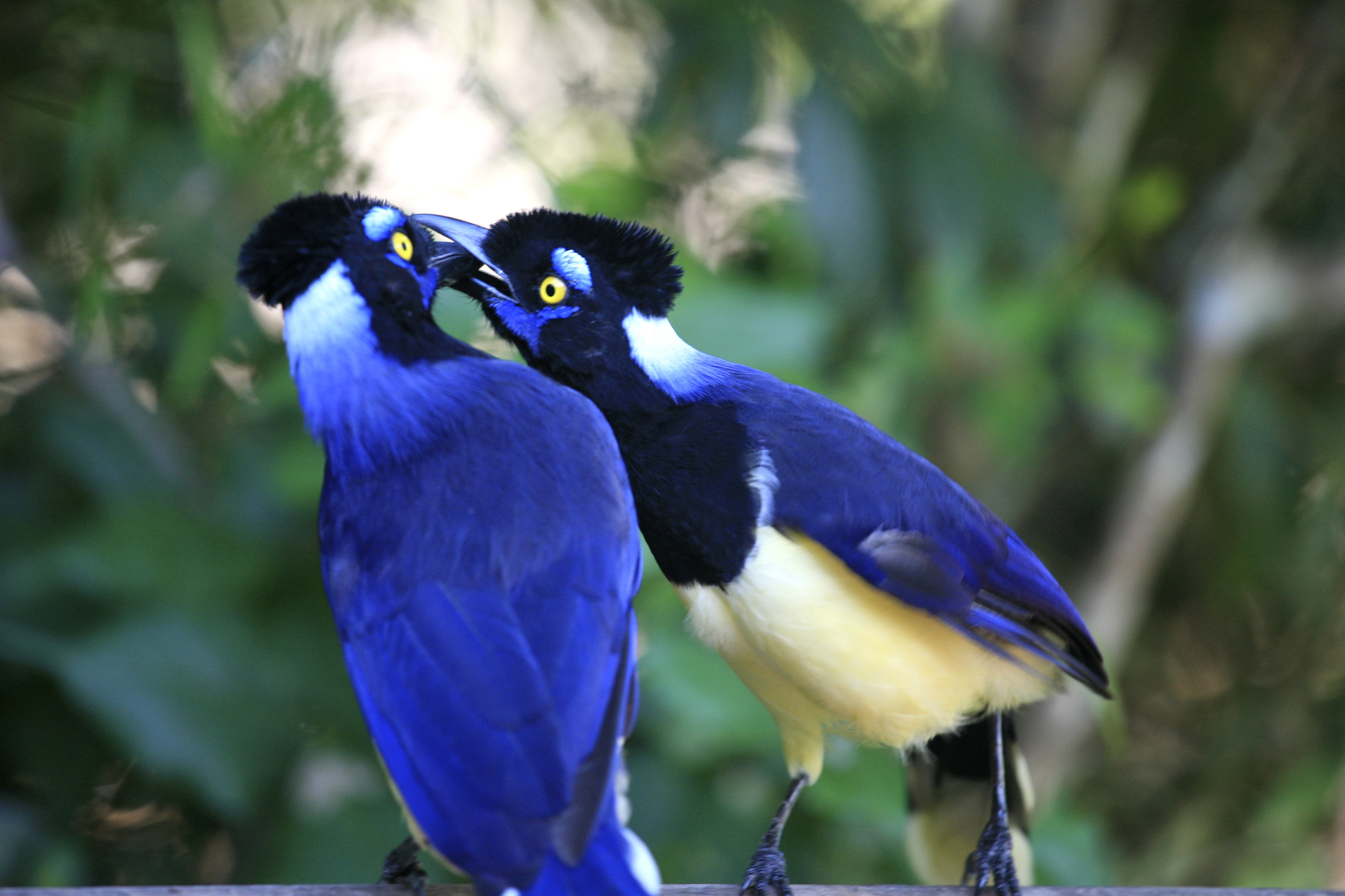 Two Plush-crested Jays at Iguazu National Park, Argentina. It is a jay of the Corvidae family, which includes the crows and their many allies. It is found in central-southern South America in southwestern Brazil, Bolivia, Paraguay, Uruguay, and northeastern Argentina, including southern regions of the Amazon Basin river systems, bordering the Pantanal